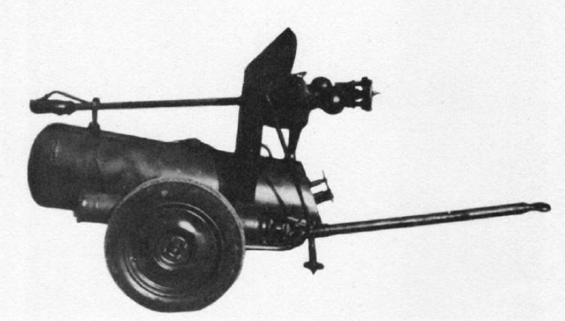 WWII italian heavy flamethrower